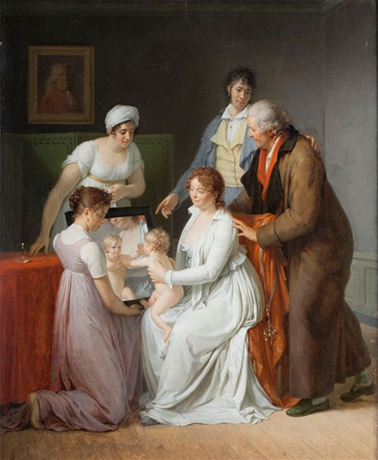 Portrait of the Artist's Family by Jacques Augustin Pajou, c 1802, oil on canvas, 63 x 52 cm, Musée du Louvre